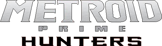 The logotype for "Metroid Prime Hunters".